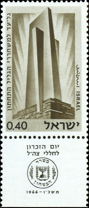 Stamp of Israel - Yom Hazikaron 1966